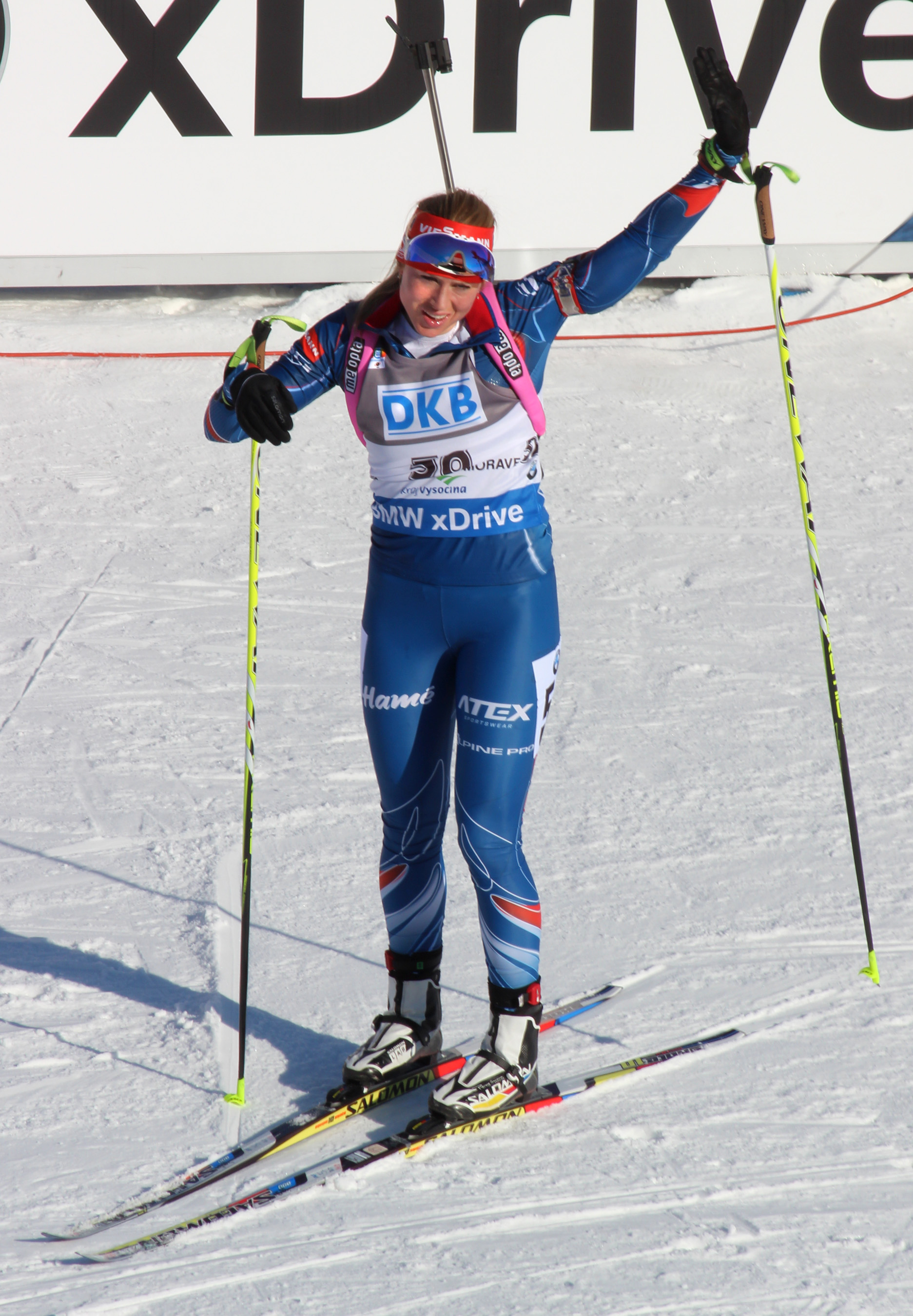 Eva Puskarčíková at Biathlon World Cup 2015 in Nové Město, Czech Republic – sprint women